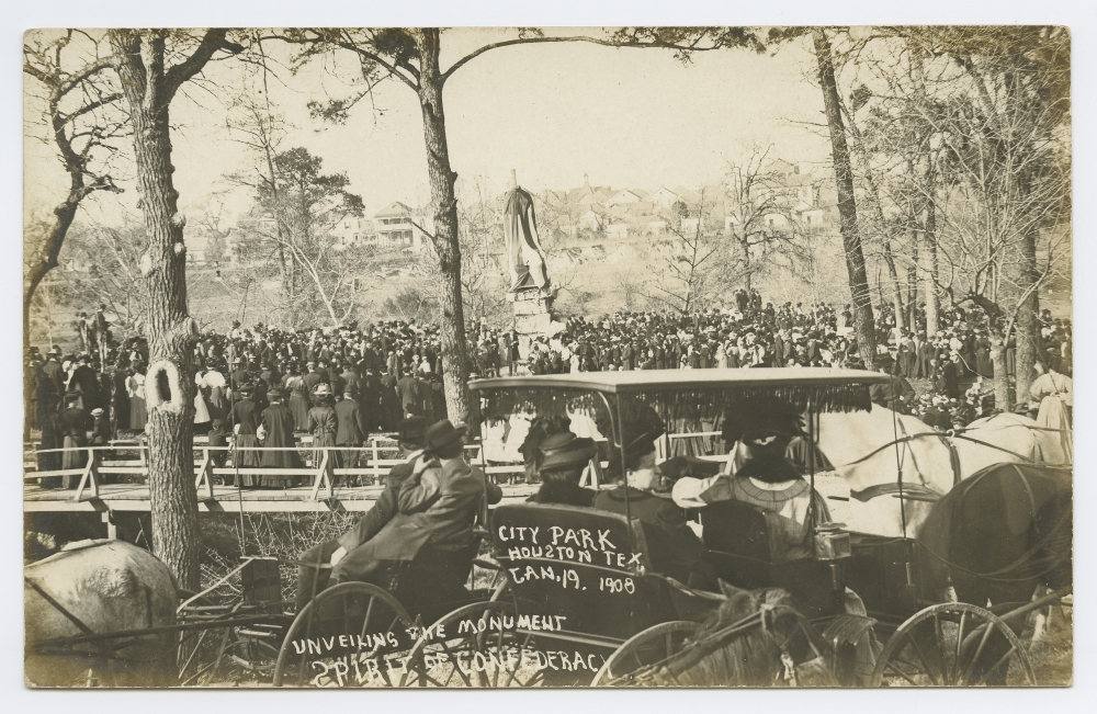 Title: City Park Houston Tex. Jan. 19, 1908 Unveiling the Monument Spirit of Confederacy Creator: Unknown Date: January 19, 1908 Part Of: George W. Cook Dallas-Texas Image Collection Place: Houston, Harris County, Texas Physical Description: 1 photographic print (postcard): gelatin silver; 9 x 14 cm File: a2014_0020_3_3_d_0189_r_houstonmonument.jpg Rights: Please cite DeGolyer Library, Southern Methodist University when using this file. A high-resolution version of this file may be obtained for a fee. For details see the web page. For other information, . For more information and to view the image in high resolution, see: View the George W. Cook Dallas/Texas Image Collection